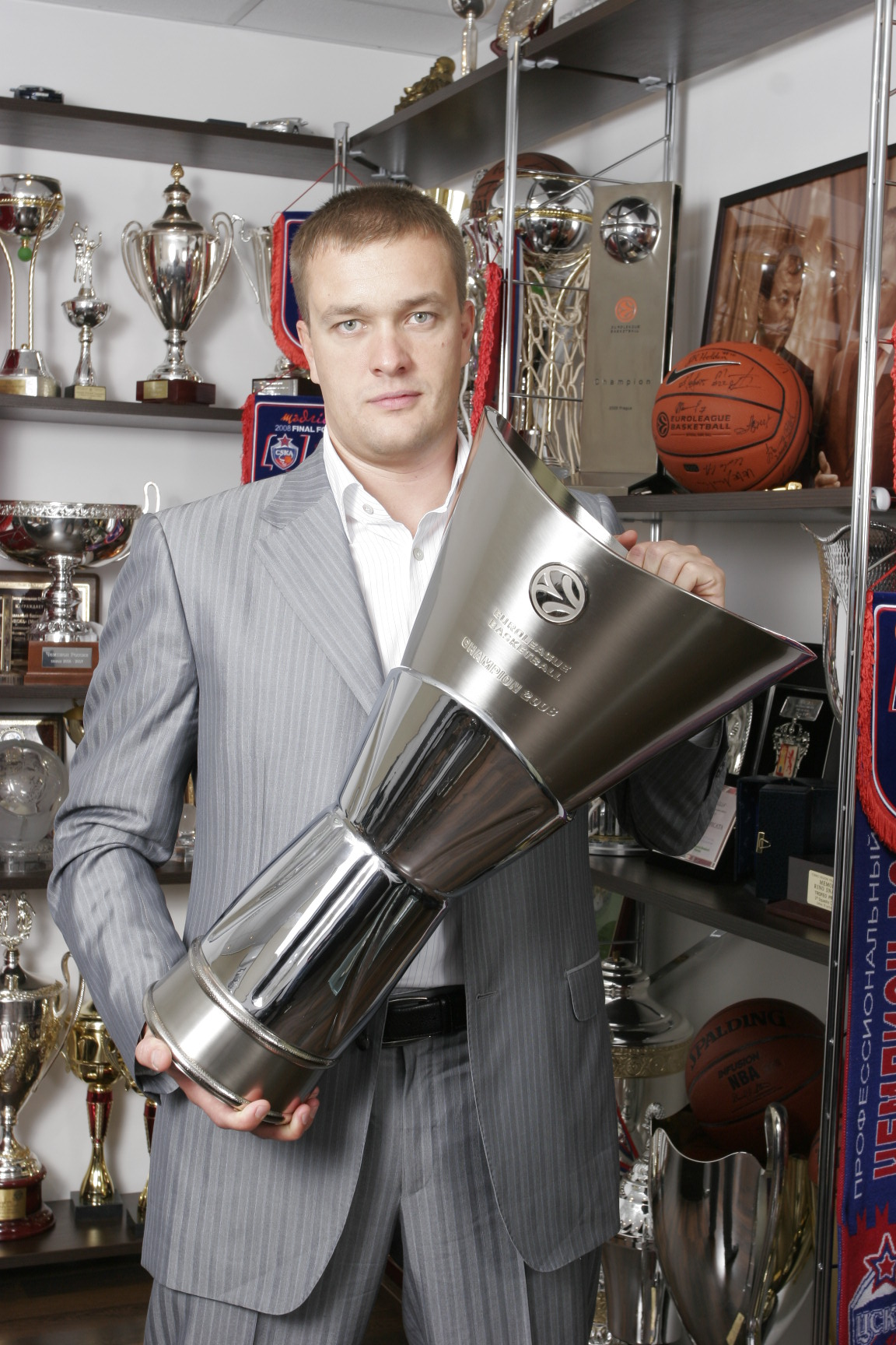 CSKA CEO Andrey Vatutin.